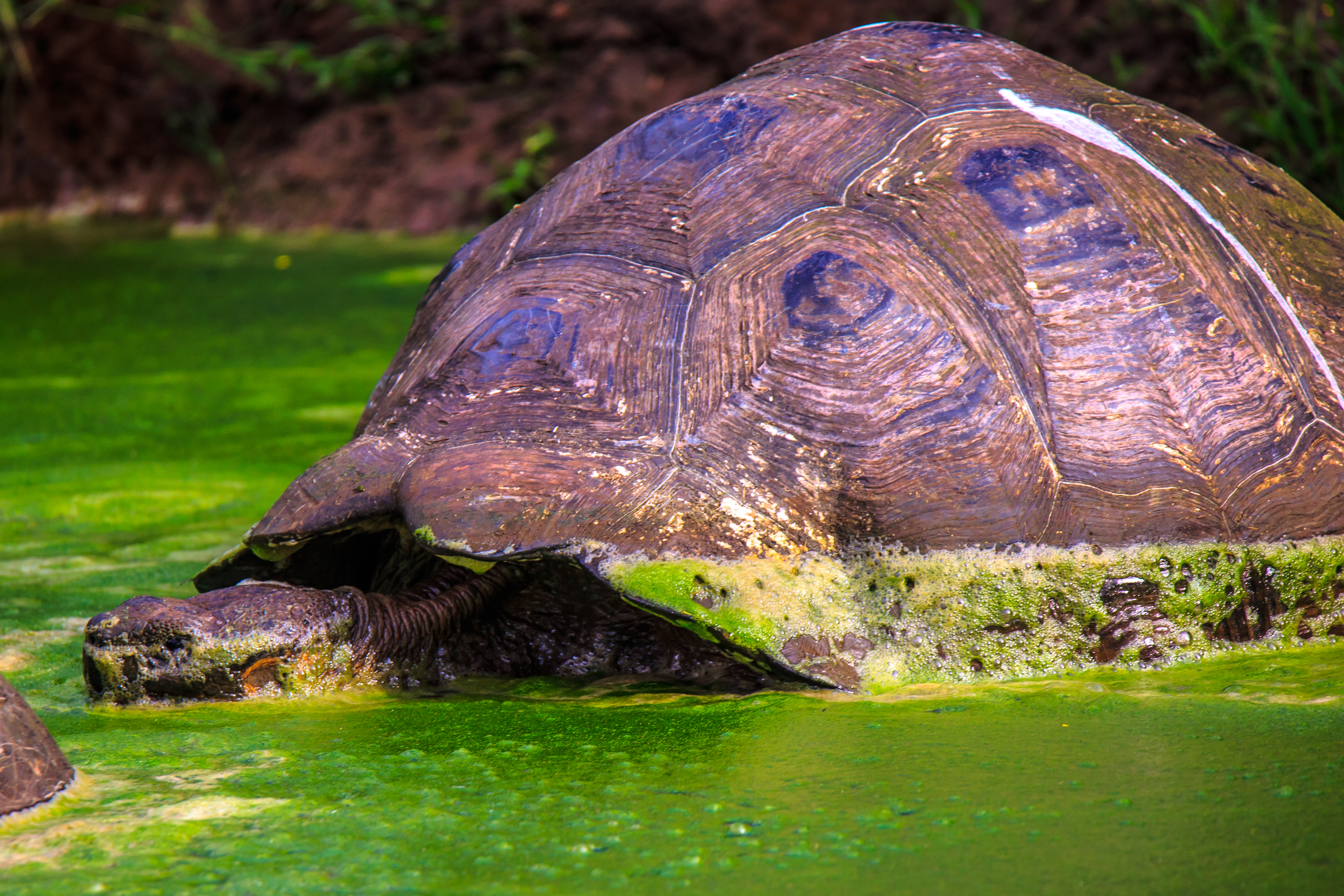 inside the Tortoise Reserve on Santa Cruz, Is...Galapagos (Giant) Tortoise (Geochelone elephantopus) (Testudinidae)...up to 250 kg...(Testudinidae)...up to 250 kg...nothing like a nice dip in green goo.!!!